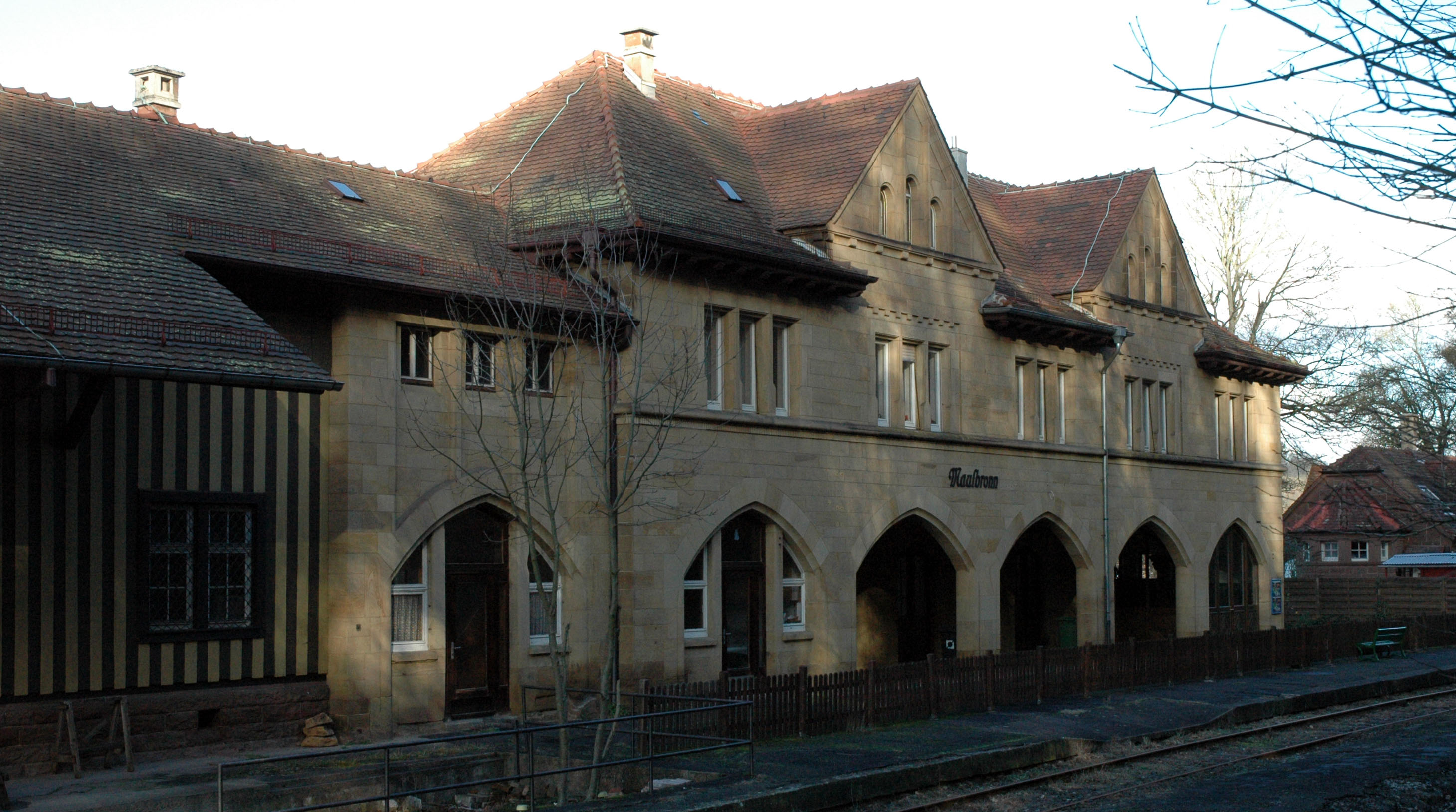 station building of Maulbronn.